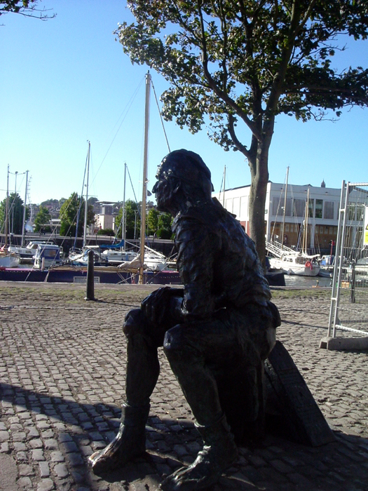 John Cabot stature on the harbourside, Bristol